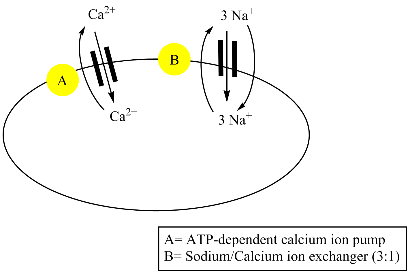 A model describing the exchange of 3 sodium ions to 1 calcium ion; this occurs when the cell is depolarized